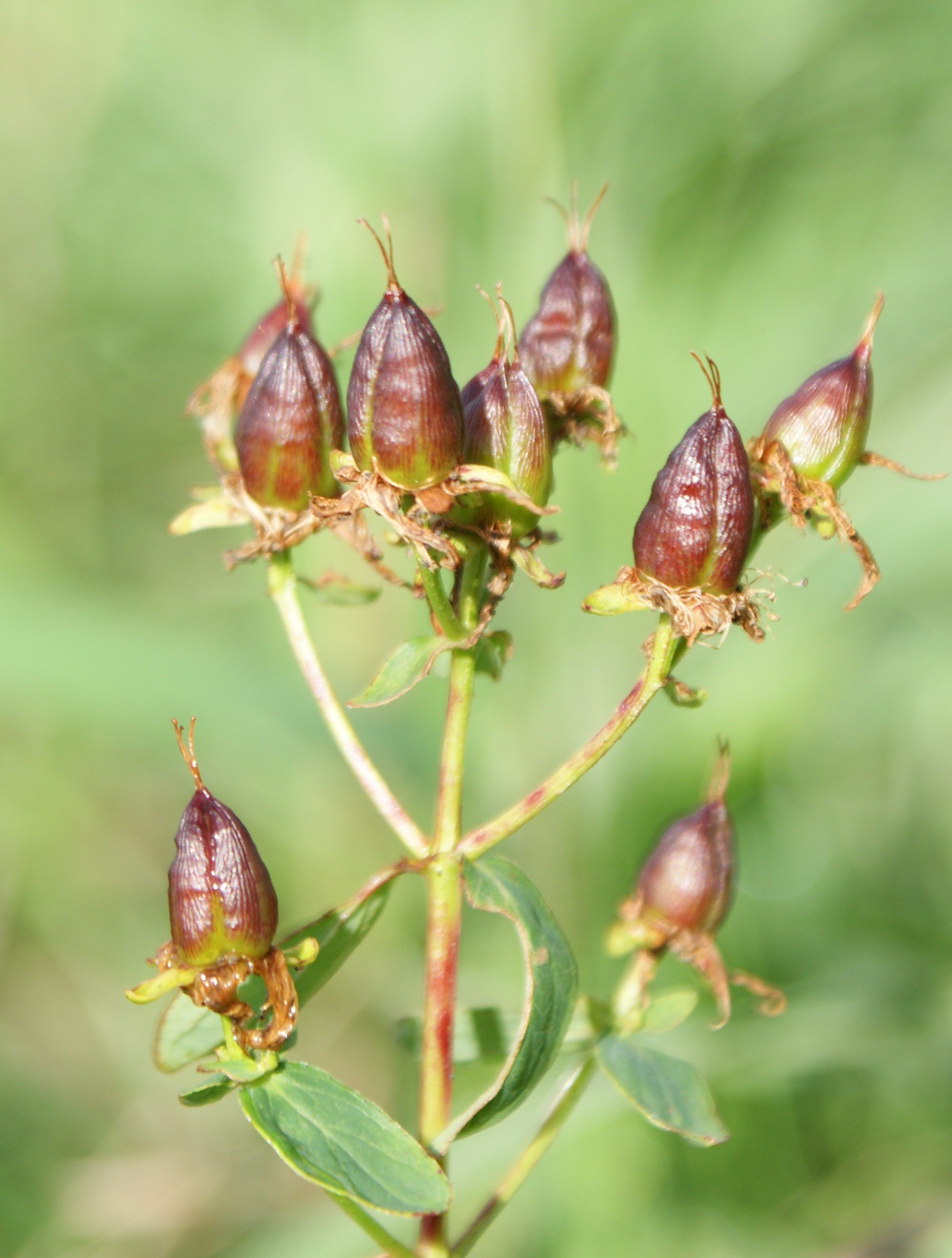 Hypericum maculatum Crantz. Fruit